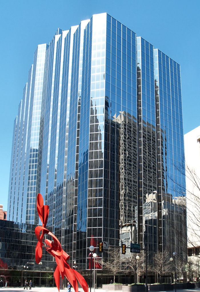 One Leadership Square. East plaza of Leadership Square, downtown Oklahoma City. Alexander Liberman's Galaxy sculpture.